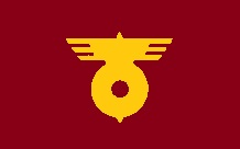 Flag of Sumita Iwate